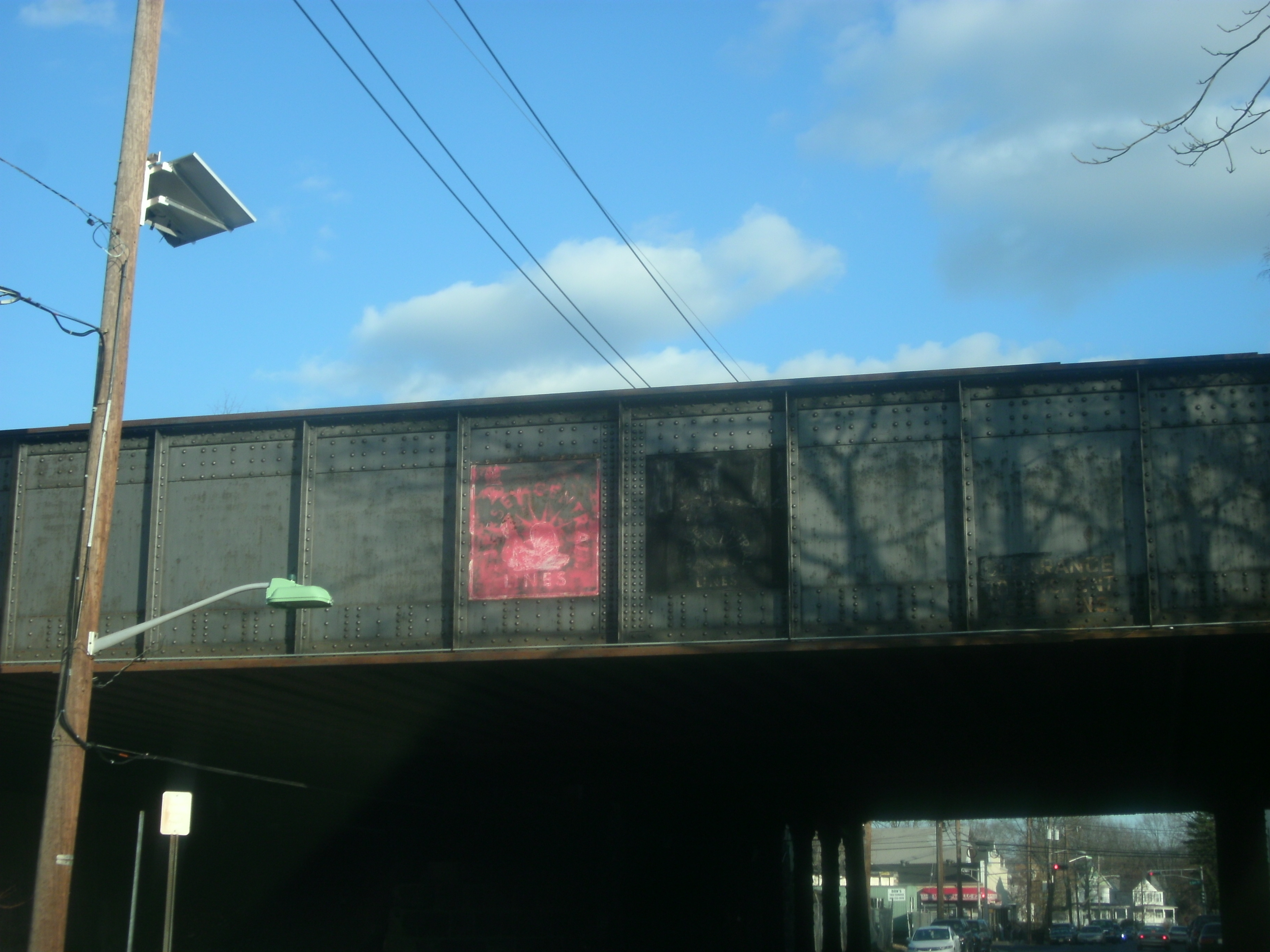 The Richmond Street bridge in Plainfield, New Jersey in March 2011.